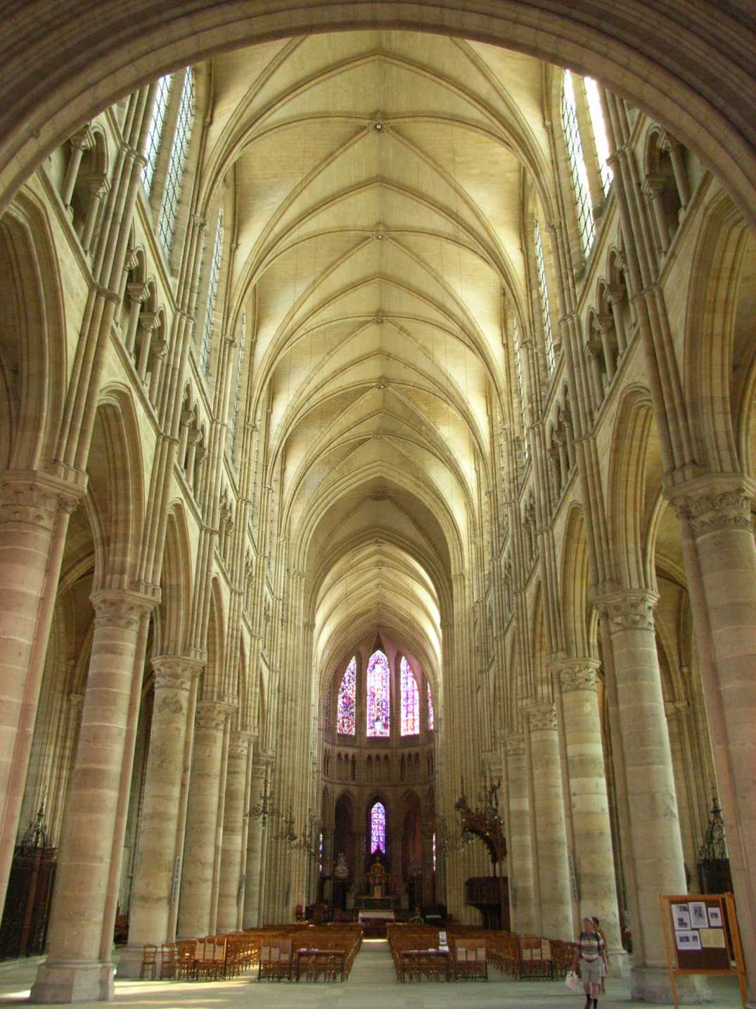 Soissons (France): Cathedral